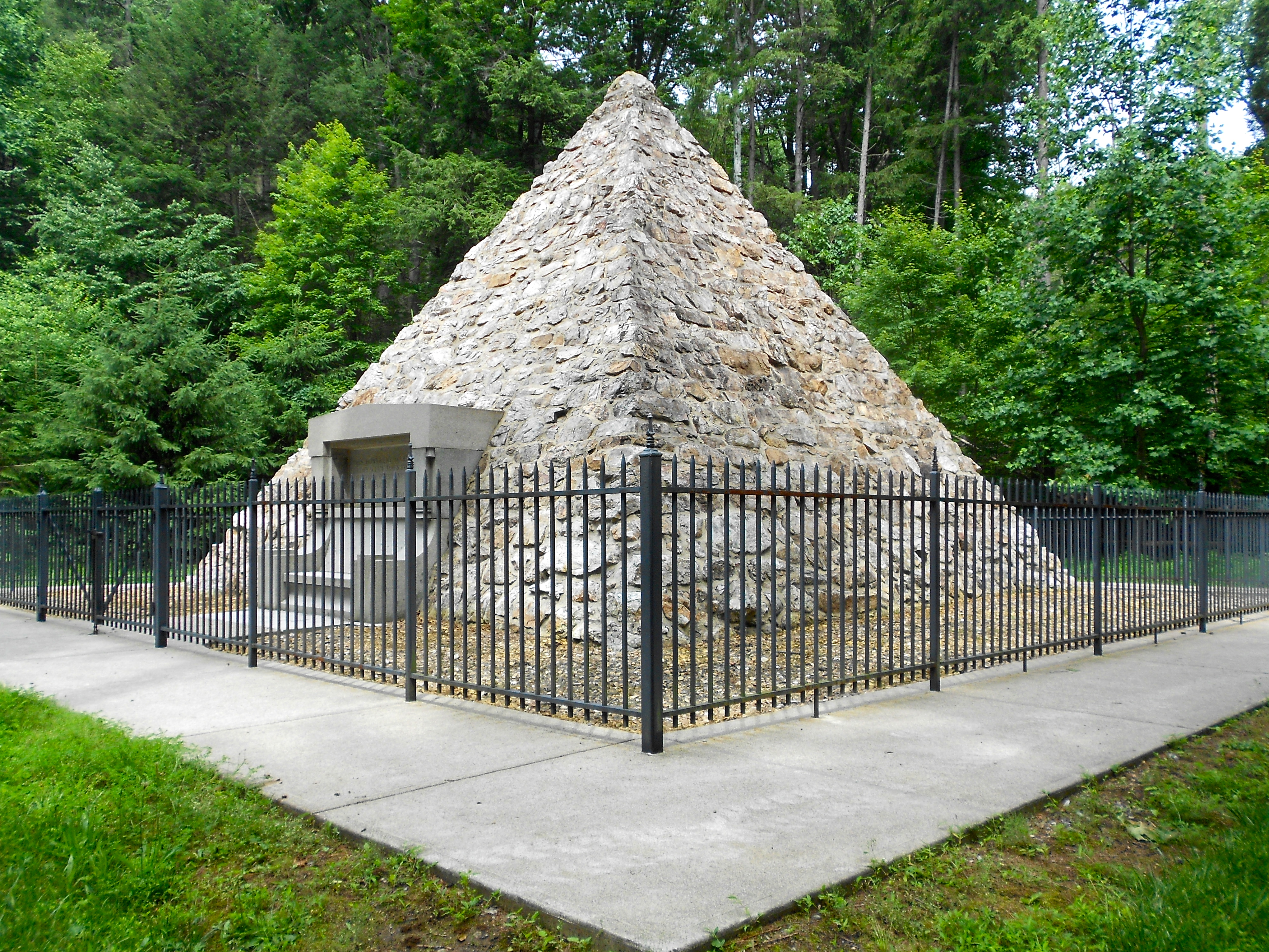 Pyramid marking the birthplace of President James Buchanan in Franklin County, Pennsylvania